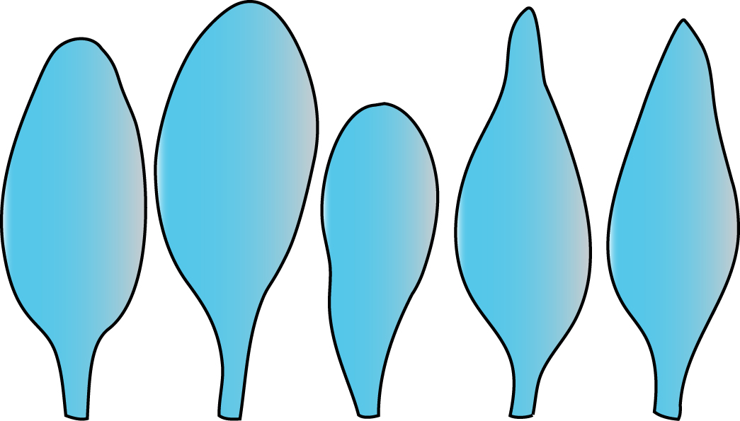 Pleurocystidia of Volvopluteus gloiocephalus